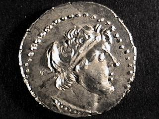 Silver didrachma of Ptolemy VIII Euergetes II (Physcon) - obverse